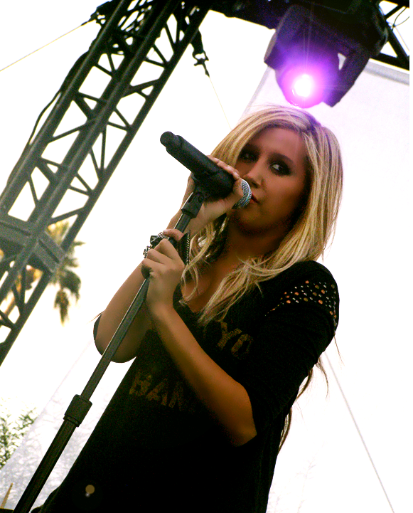 Ashley Tisdale performing at the opening for the first Microsoft Store in Scottsdale, Arizona.